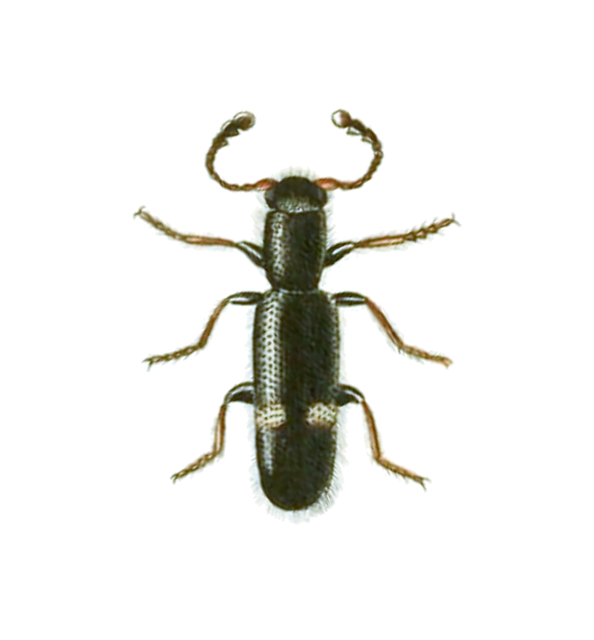 Shillingford's Opilus